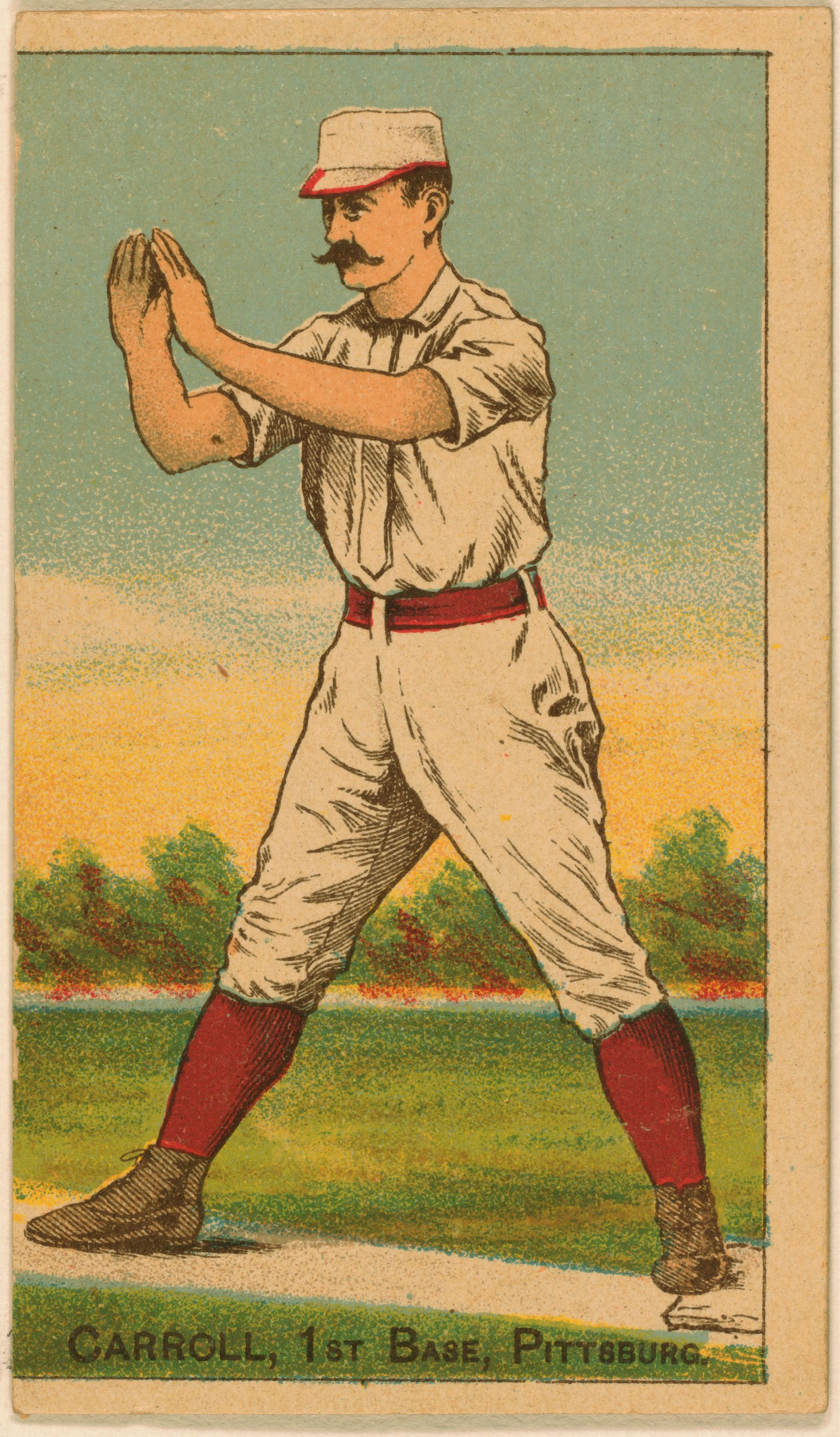 Illustration of Frederick Herbert (Fred) Carroll (1864-1904), a catcher and outfielder in Major League Baseball. From 1884 through 1891, he played with the Columbus Buckeyes (1884) and for the Pittsburgh teams Alleghenys (1885-89), Burghers (1890) and Pirates (1891). Carroll batted and threw right handed.